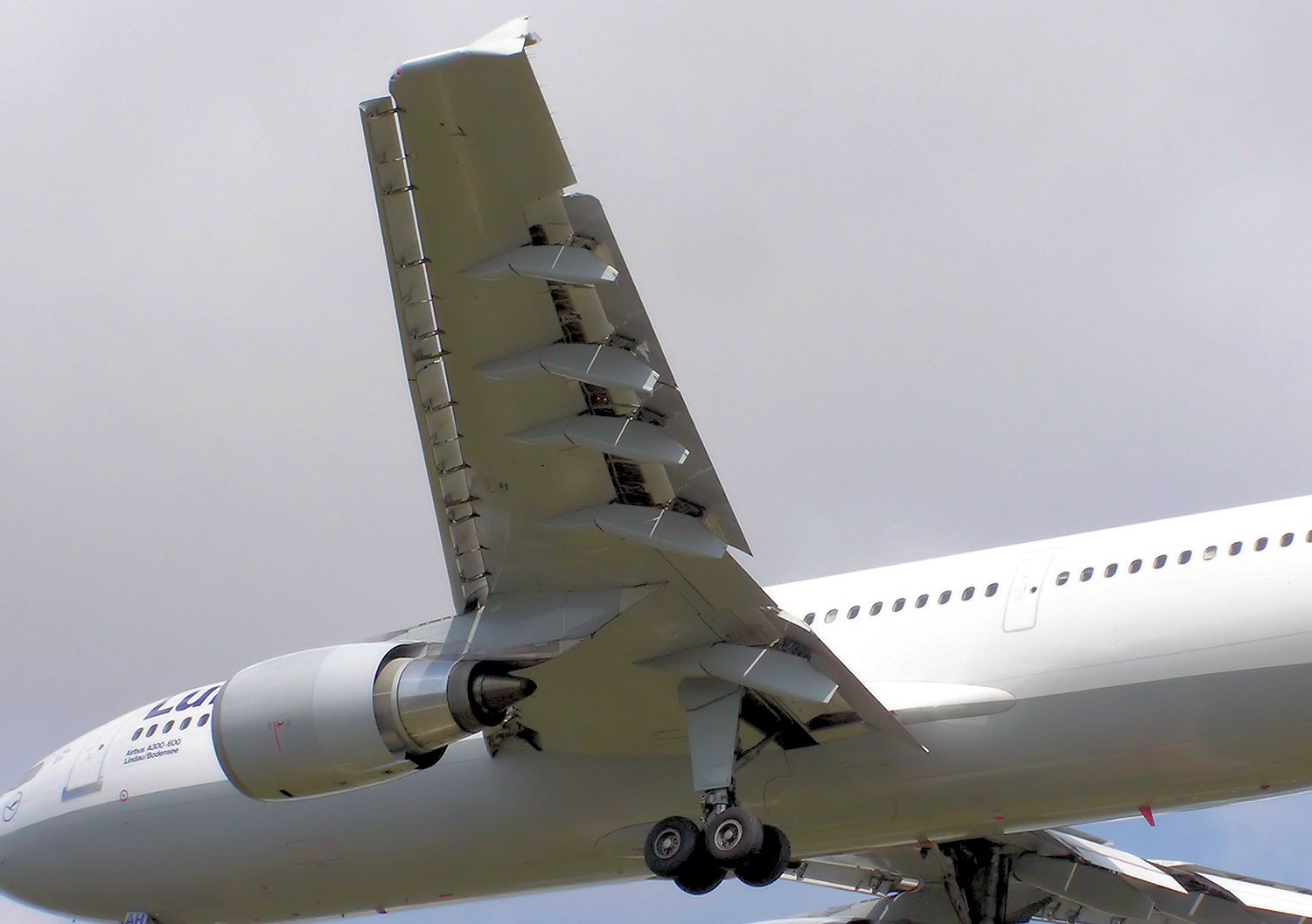 The wing of a Lufthansa Airbus A300B4-600 (D-AIAH) "Lindau/Bodensee." The aircraft is landing at London Heathrow Airport, England. Taken by Adrian Pingstone in July 2004 and placed in the public domain.